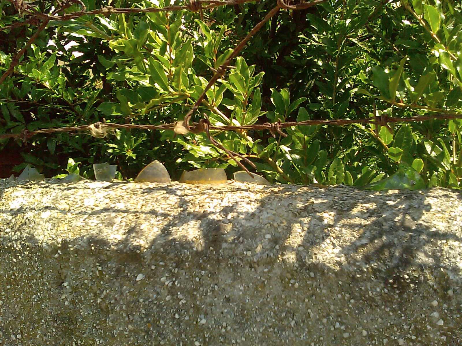 ... a sun-blazed garden wall ... with jagged glass set along its rim.